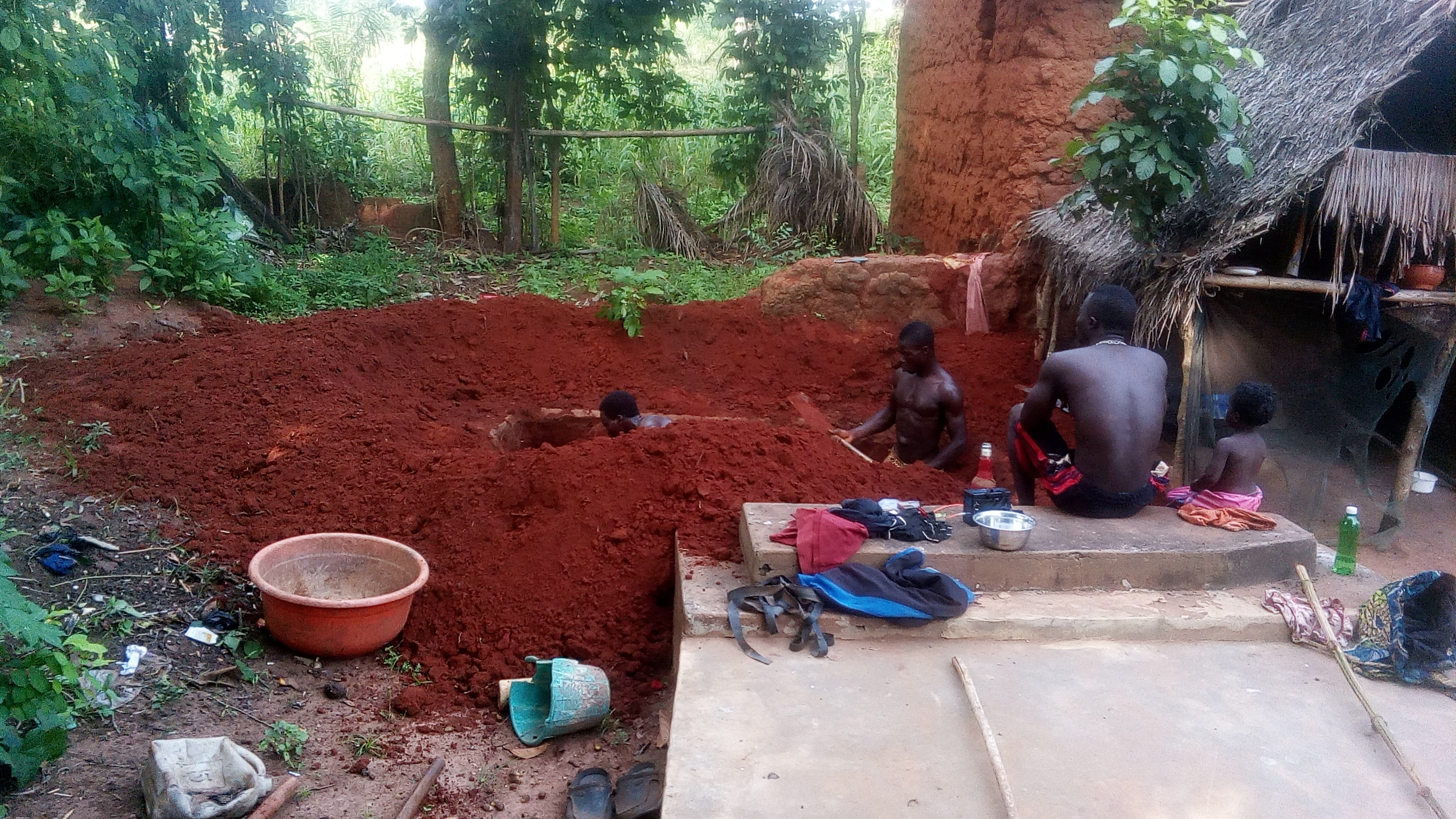 la pauvrete au benin... Tragique This is an image of "African people at work" from Benin